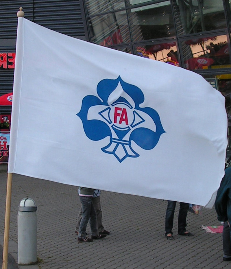 A Salvation Army Scout flag from Sweden